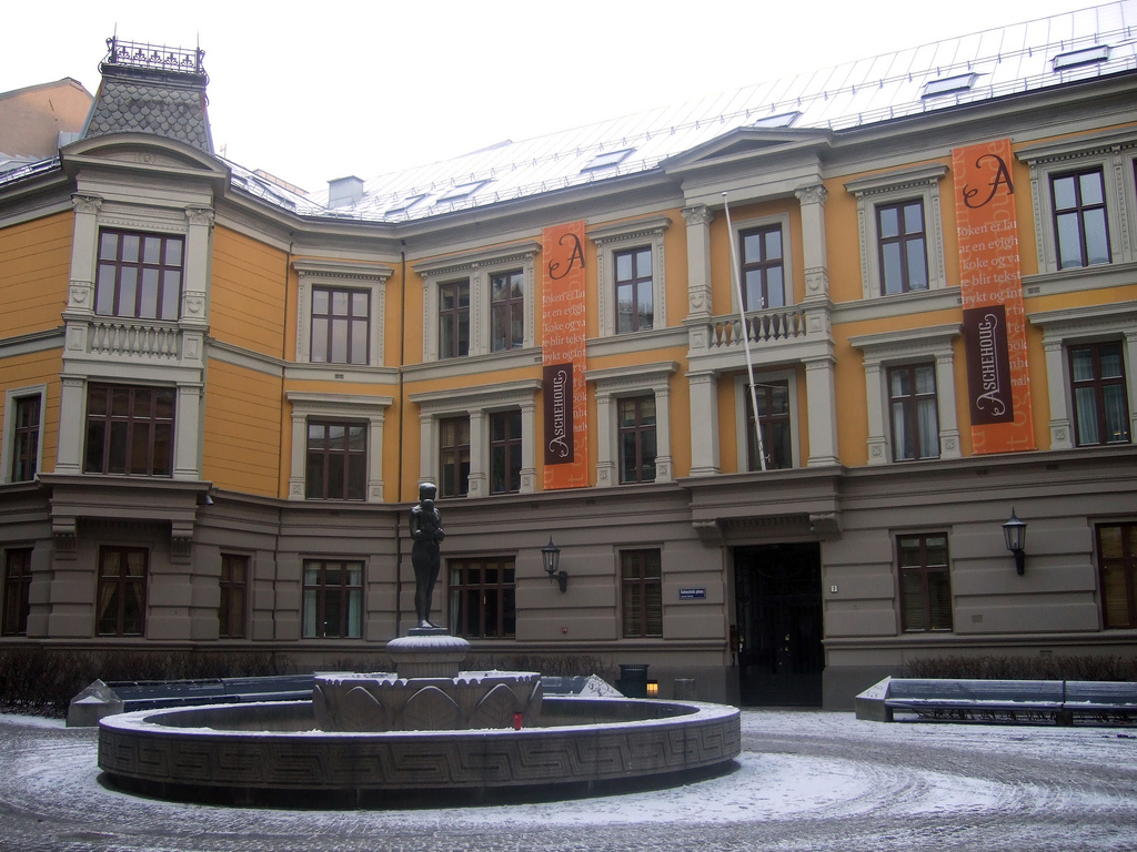 Main office of Aschehoug, a Norwegian independent publishing company Oslo, Norway, The administration and editorial departements are situated at Sehesteds plass in the center of Oslo.